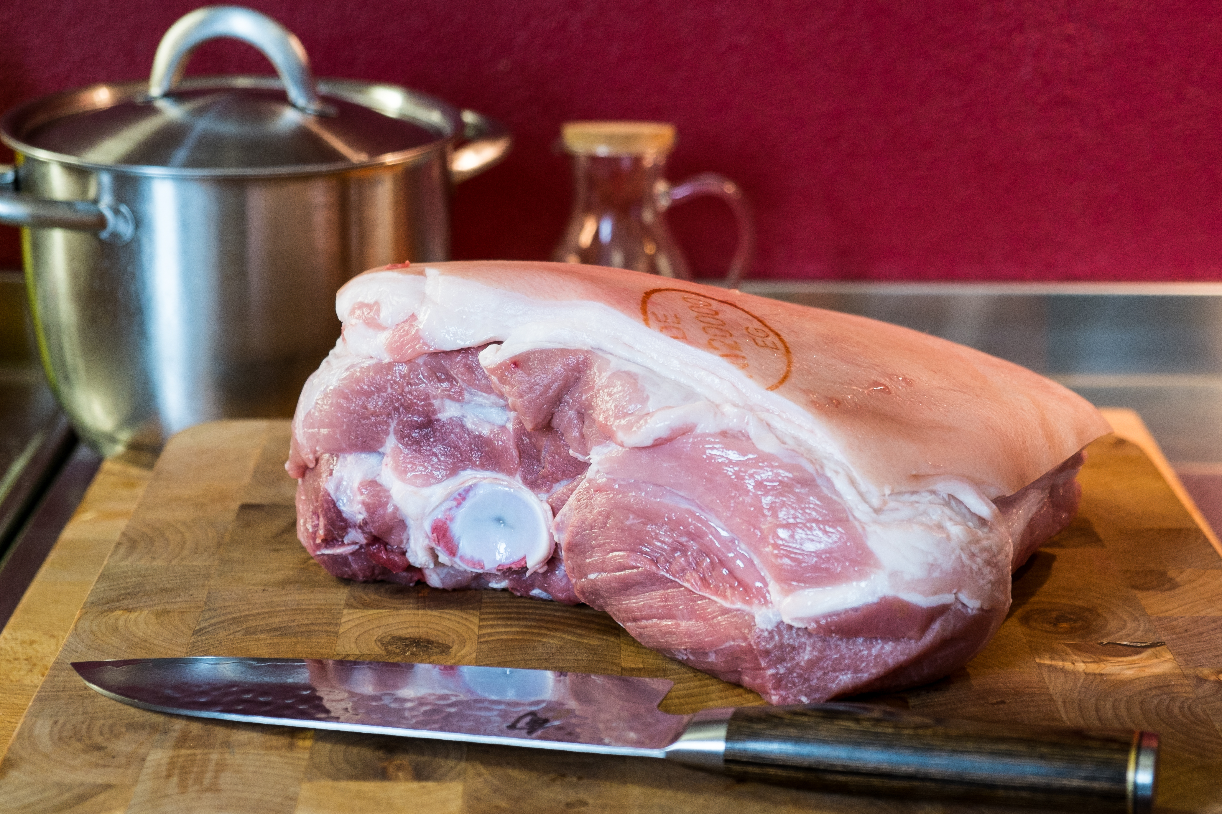 pork shoulder with bones and rind